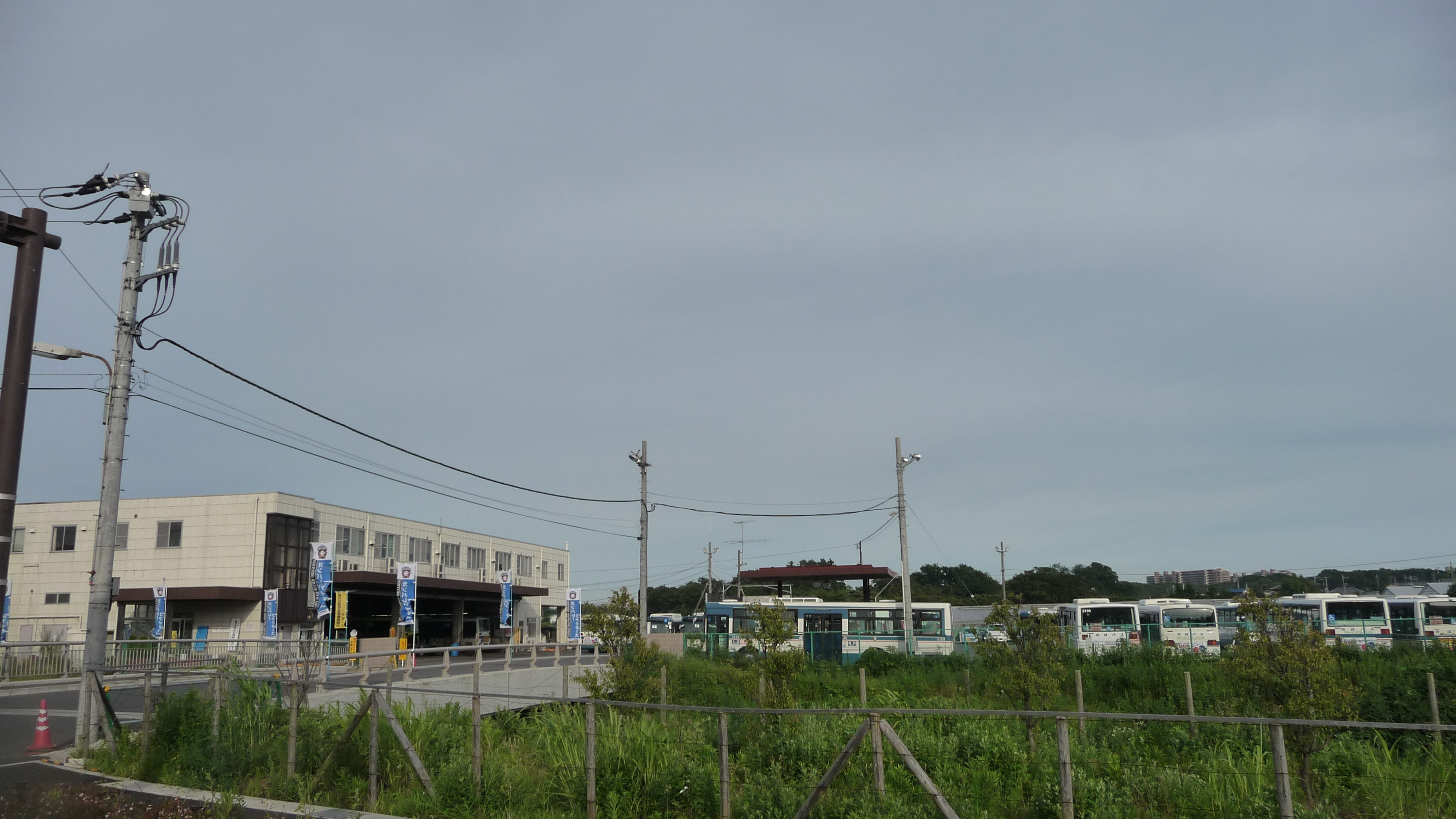 Keisei Bus Ichikawa Dept. Kashiwai yard.